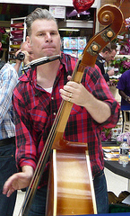 Mark Kermode playing double bass for The Dodge Brothers in Marylebone Station.